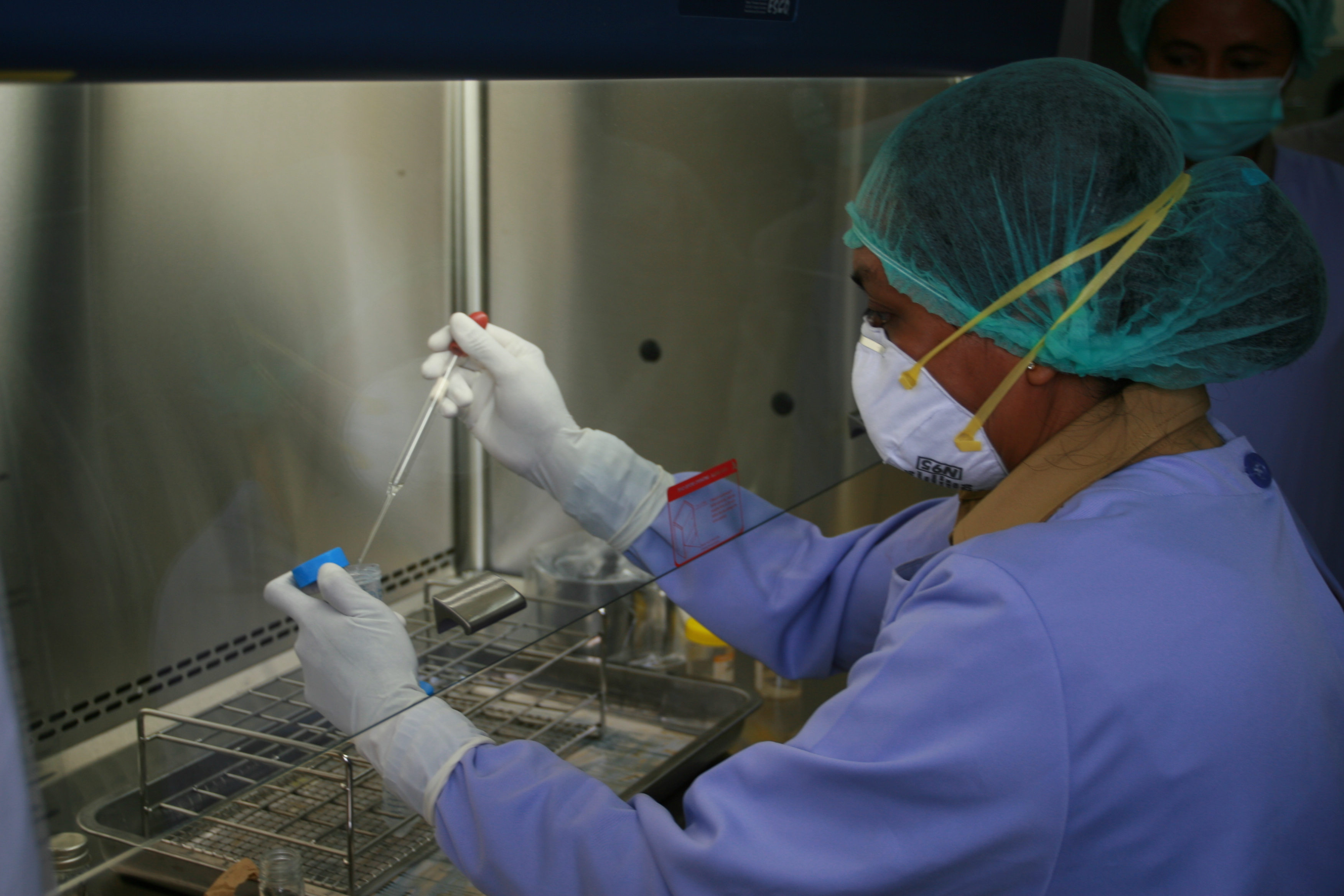 A staff member works at the Jayapura's Health Laboratory (BLK Jayapura) . USAID/Indonesia - in partnership with the Government of Indonesia’s National TB Program (NTP) - finished extensive renovations at the Balai Laboratorium Kesehatan (BLK) Jayapura in Papua in mid-2012. BLK Jayapura is now a modern laboratory which is capable of accurately testing for tuberculosis, multi-drug resistant tuberculosis (MDR TB), and TB/HIV.